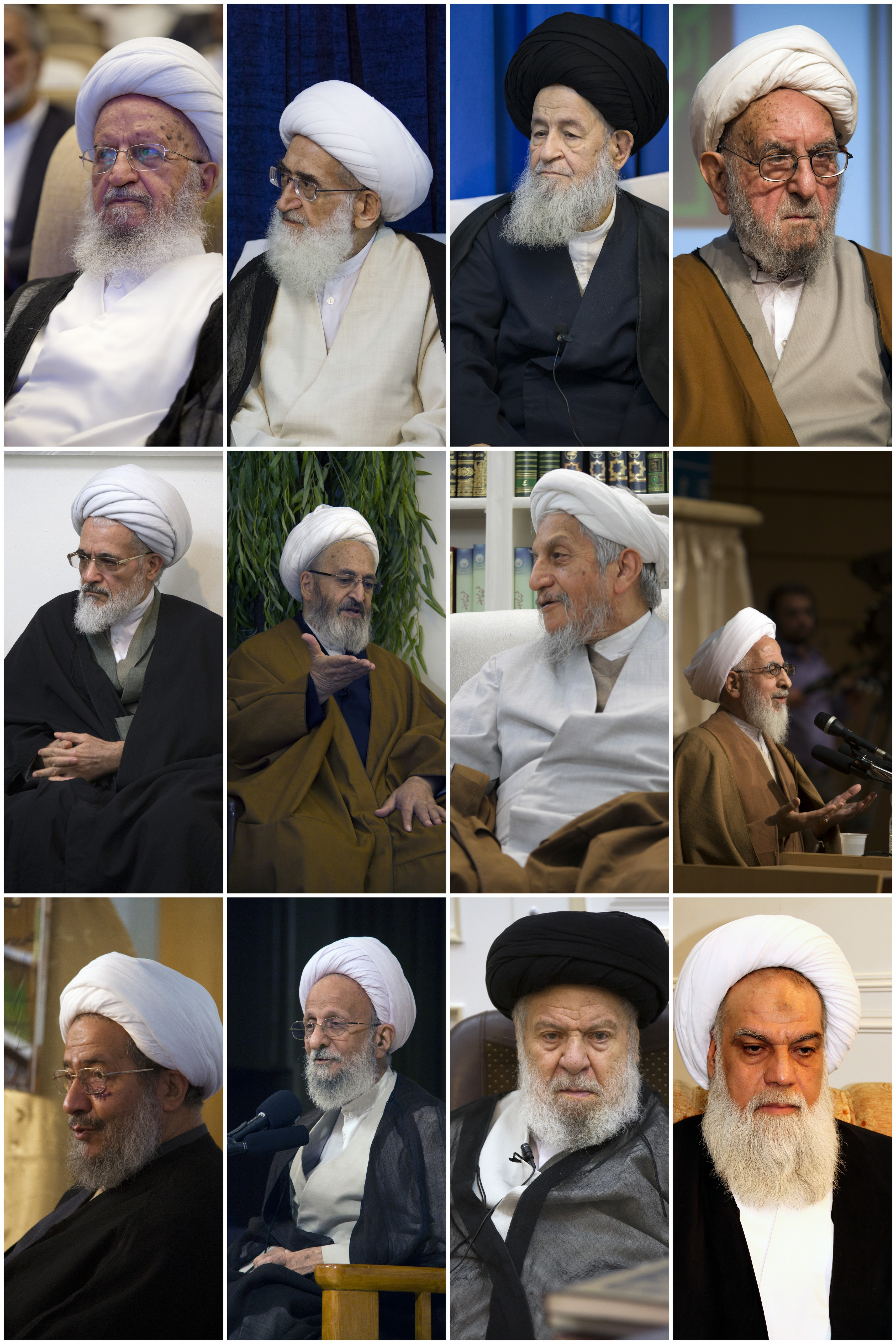 Grand Ayatollahs Qom. Photo Collage, Photographer: Mostafa Meraji